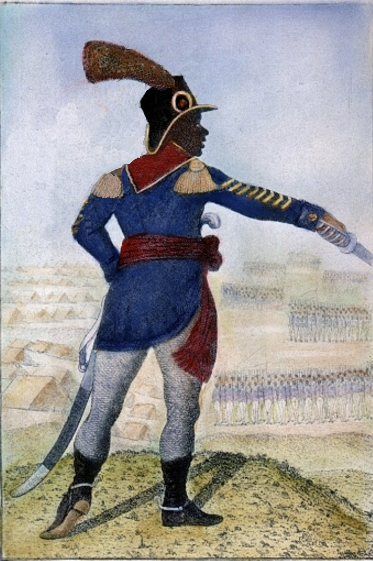 Toussaint Louverture, 1805.